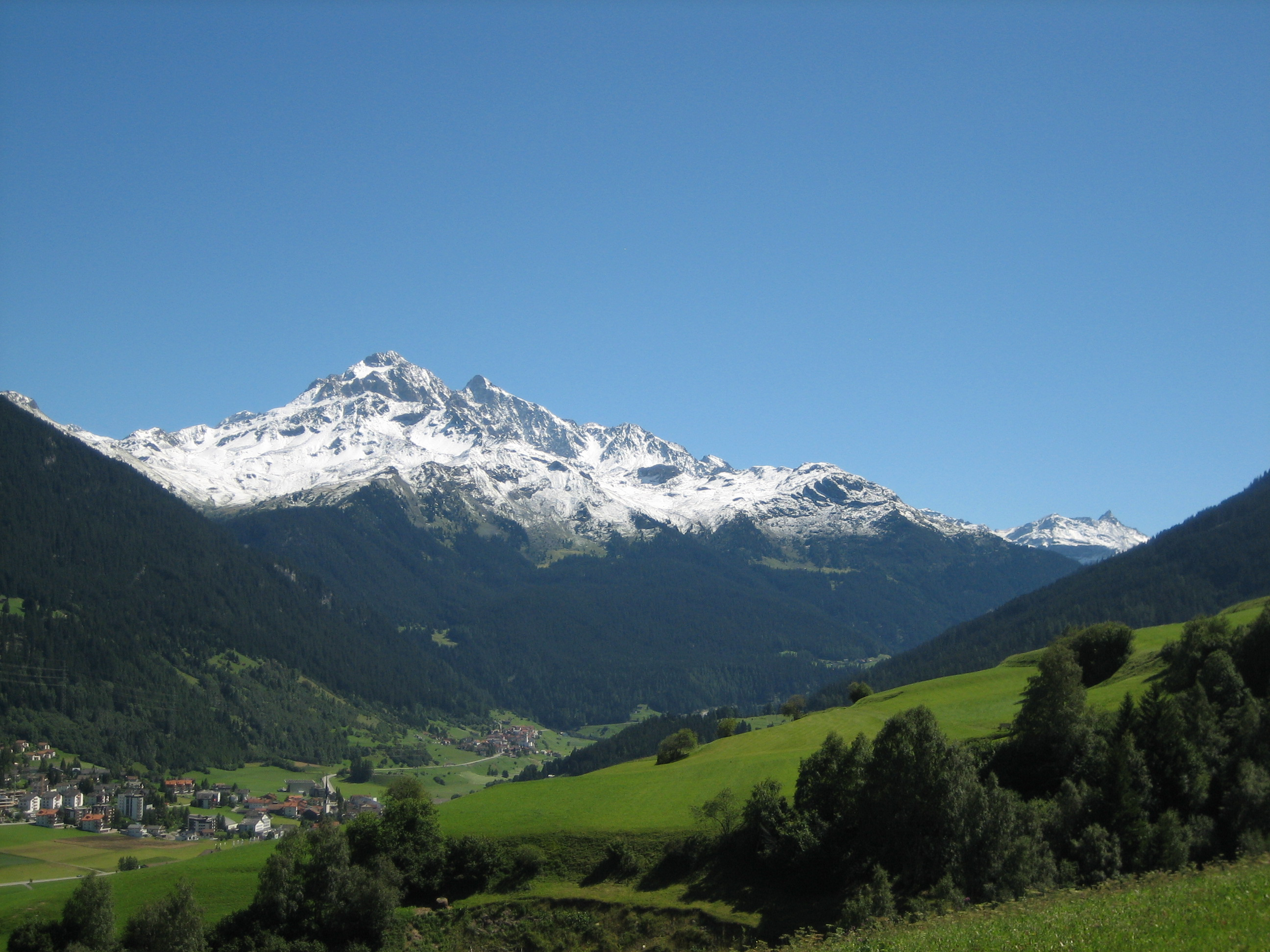 Piz d'Err, Piz Calderas, Tschima da Flix, Piz d'Agnel, Piz Neir, Riom, Parsonz, Savognin, Tinizong, Grisons, Switzerland